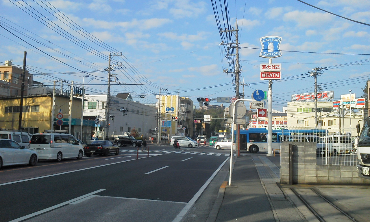 The scenery of along the Shitte-Kurokawa road at Inukura, Miyamae-ku, Kawasaki.